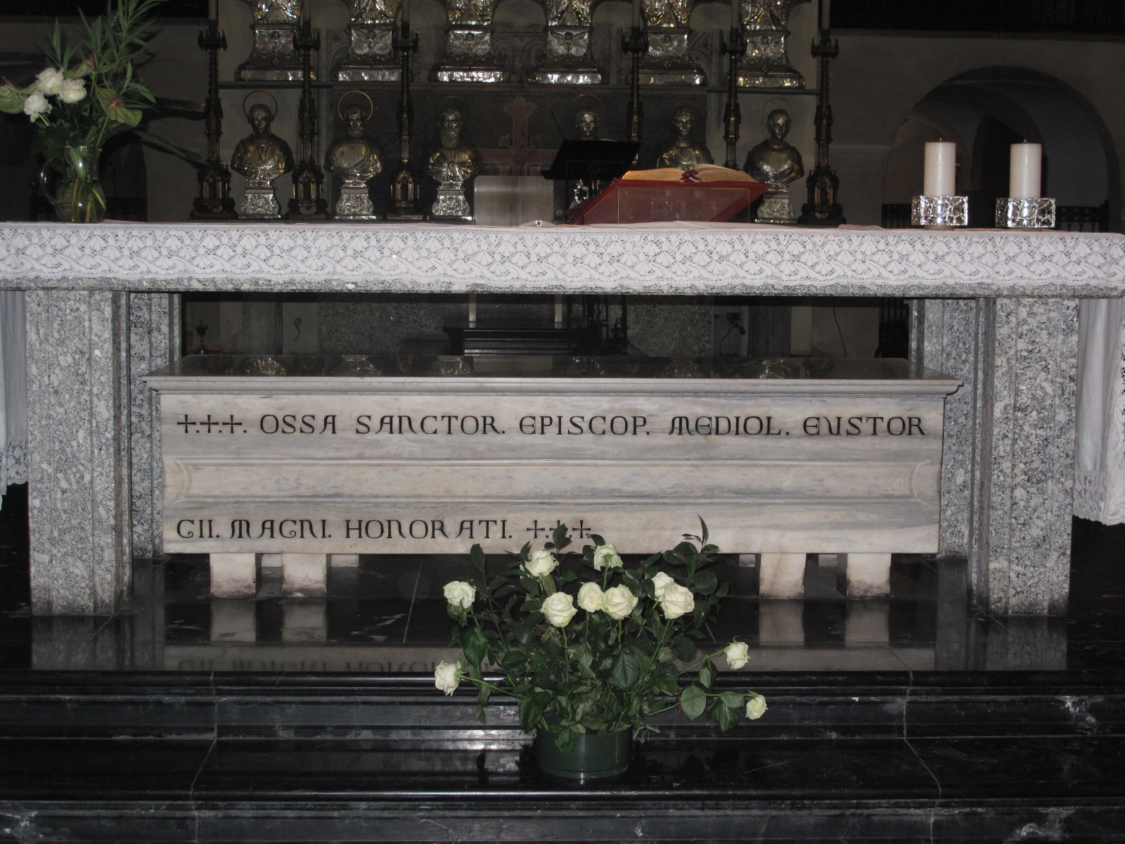 Basilica of Saint Eustorgius in Milan, Italy - Main altar with ancient sarcophagus with the corpses of the following saint bishops of Milan: Eustorgius I, Magnus and Honoratus